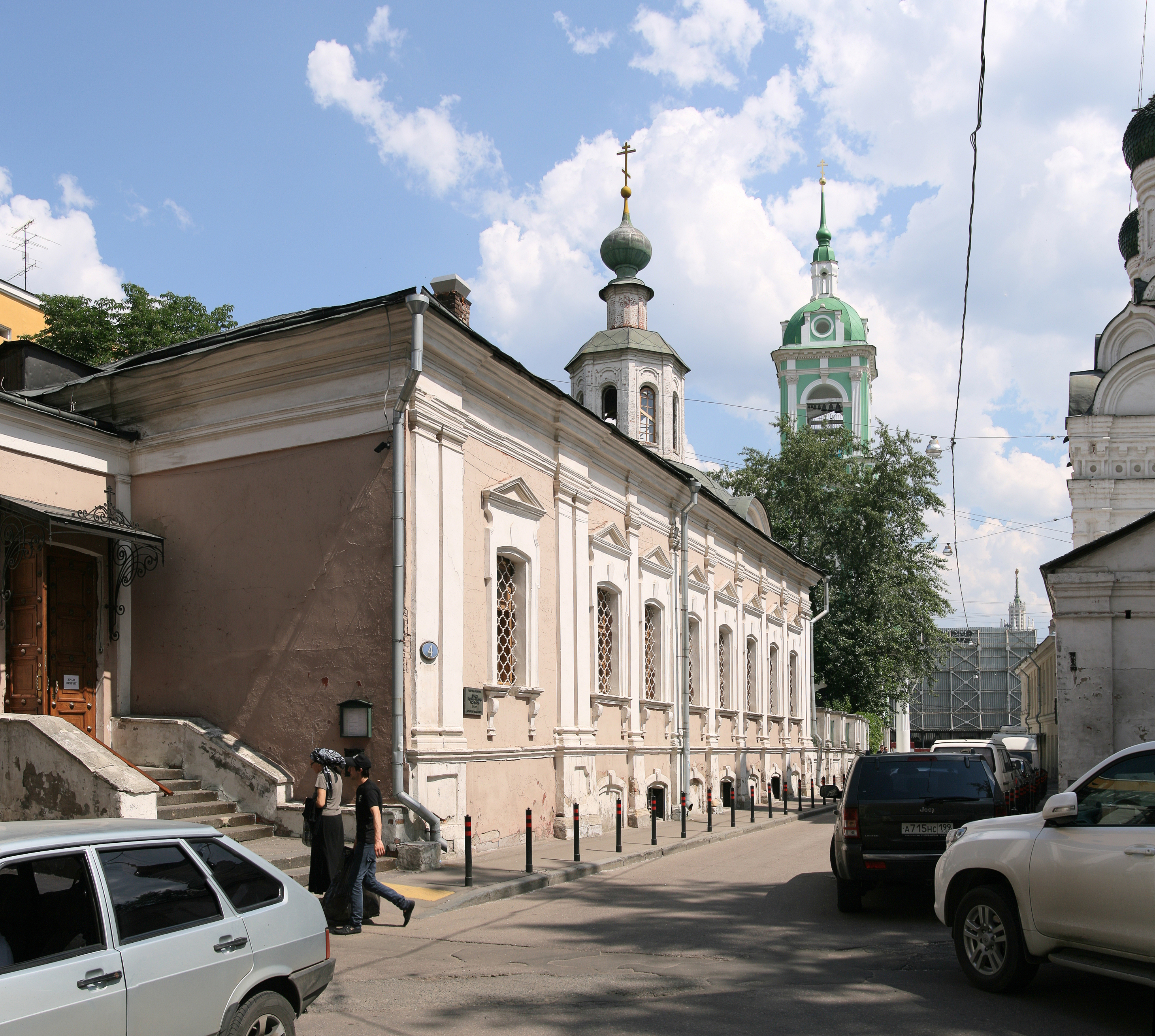 Refectory of Church of Saint John the Baptist pod Borom, Moscow, Chernigovsky Lane